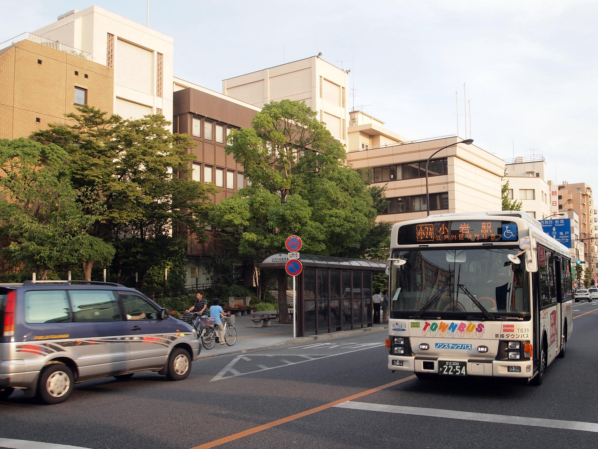 Keisei Town Bus "Ko 74" route, at Edogawa City Office. Model: Isuzu Erga Mio PDG-LR234J2 License plate: TKA200 KA2254